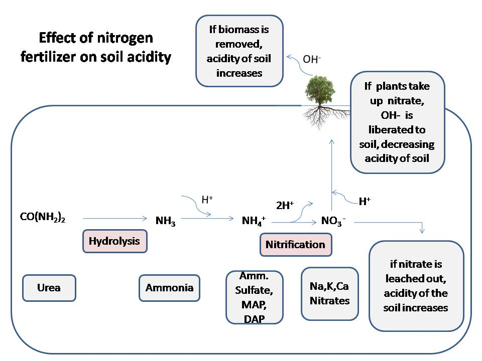 Effect of nitrogen fertilizer on soil acidity